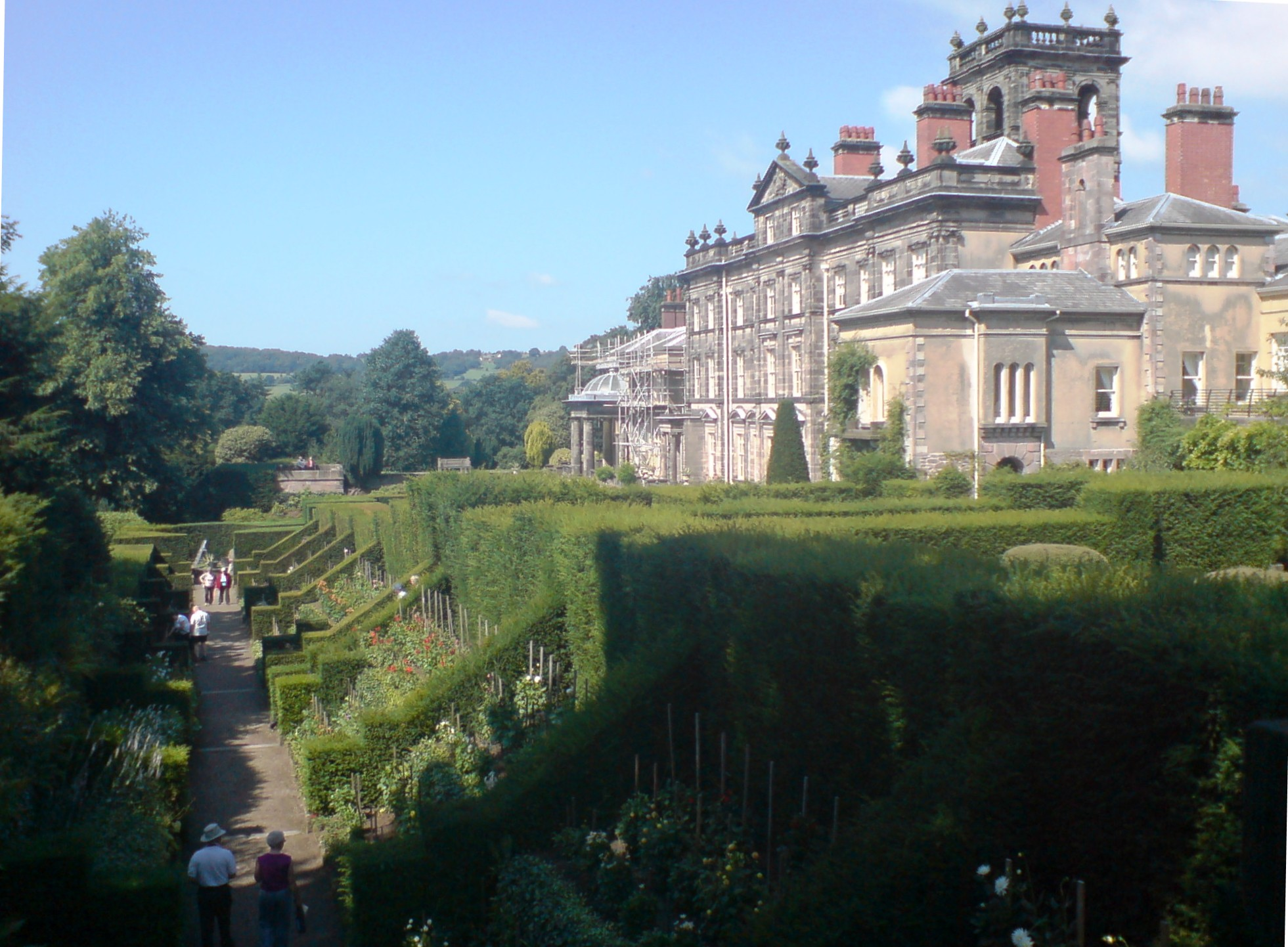 Biddulph Grange: view along Dahlia Walk Author: User:Peter morrell